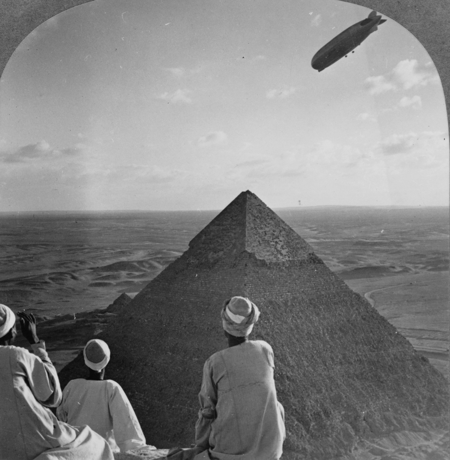 Original Stereoscope caption "The Graf Zeppelin's Rendezvous with the Eternal Desert and the More than 4,000 Year-old Pyramids of Gizeh, Egypt.